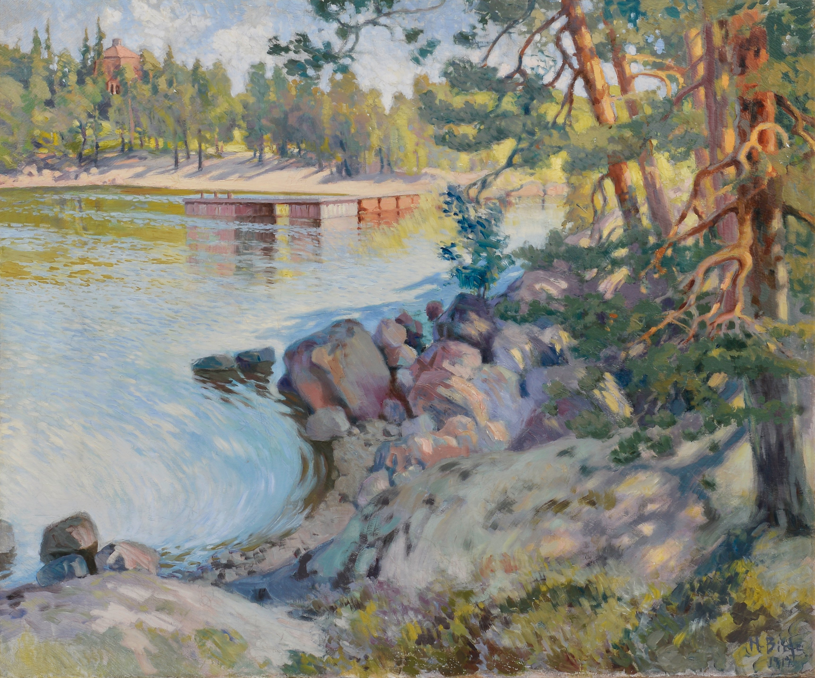 Coastal view by Finnish painter Helmi Biese (1867-1933). 1919. Oil on canvas. 85x102 cm.